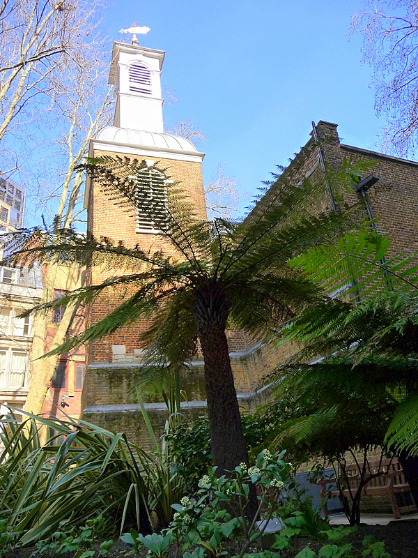 St Botolphs Aldersgate, from Postman's Park